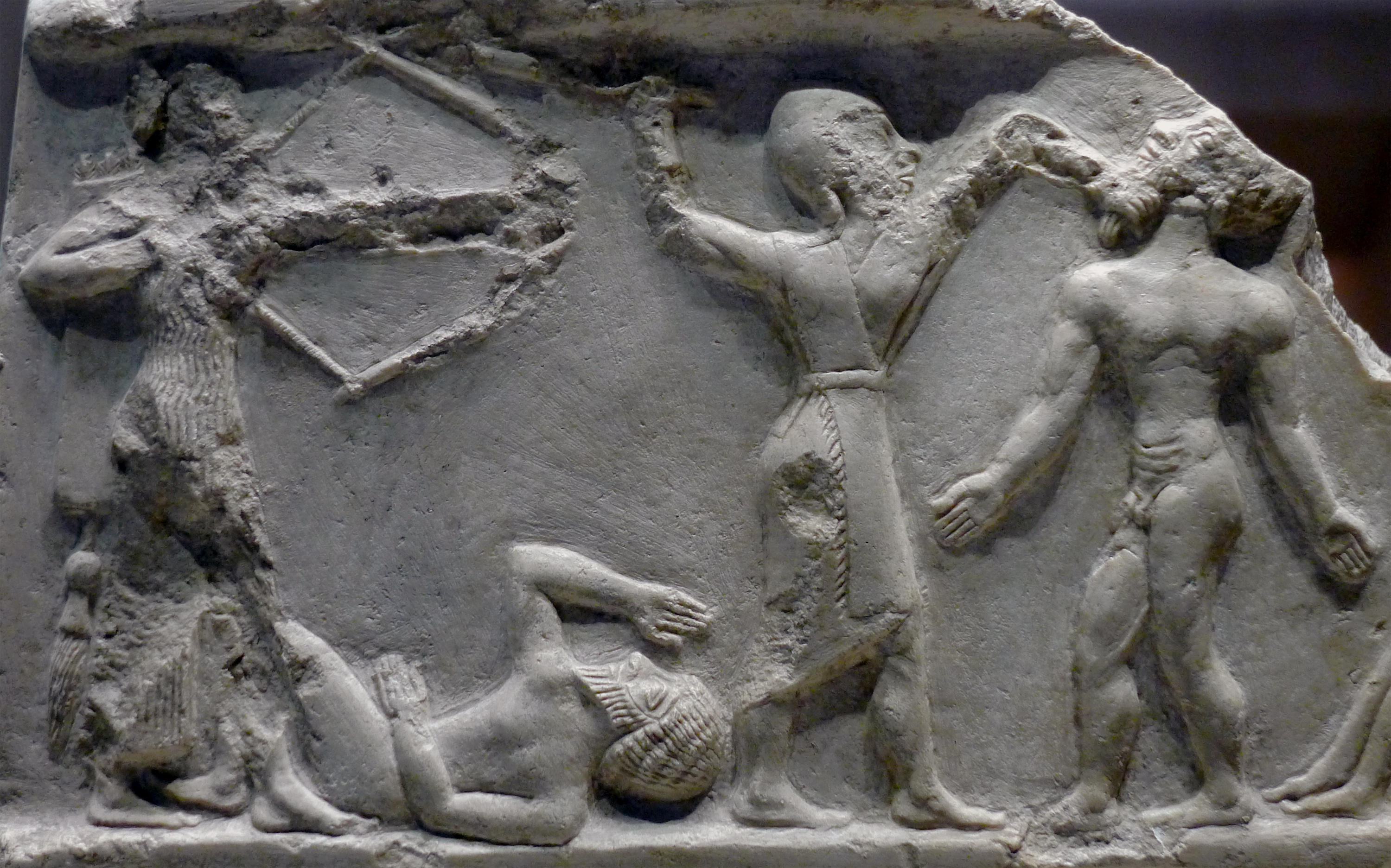 Victory stele (fragment) [1] Circa 2300 - 2250 BC